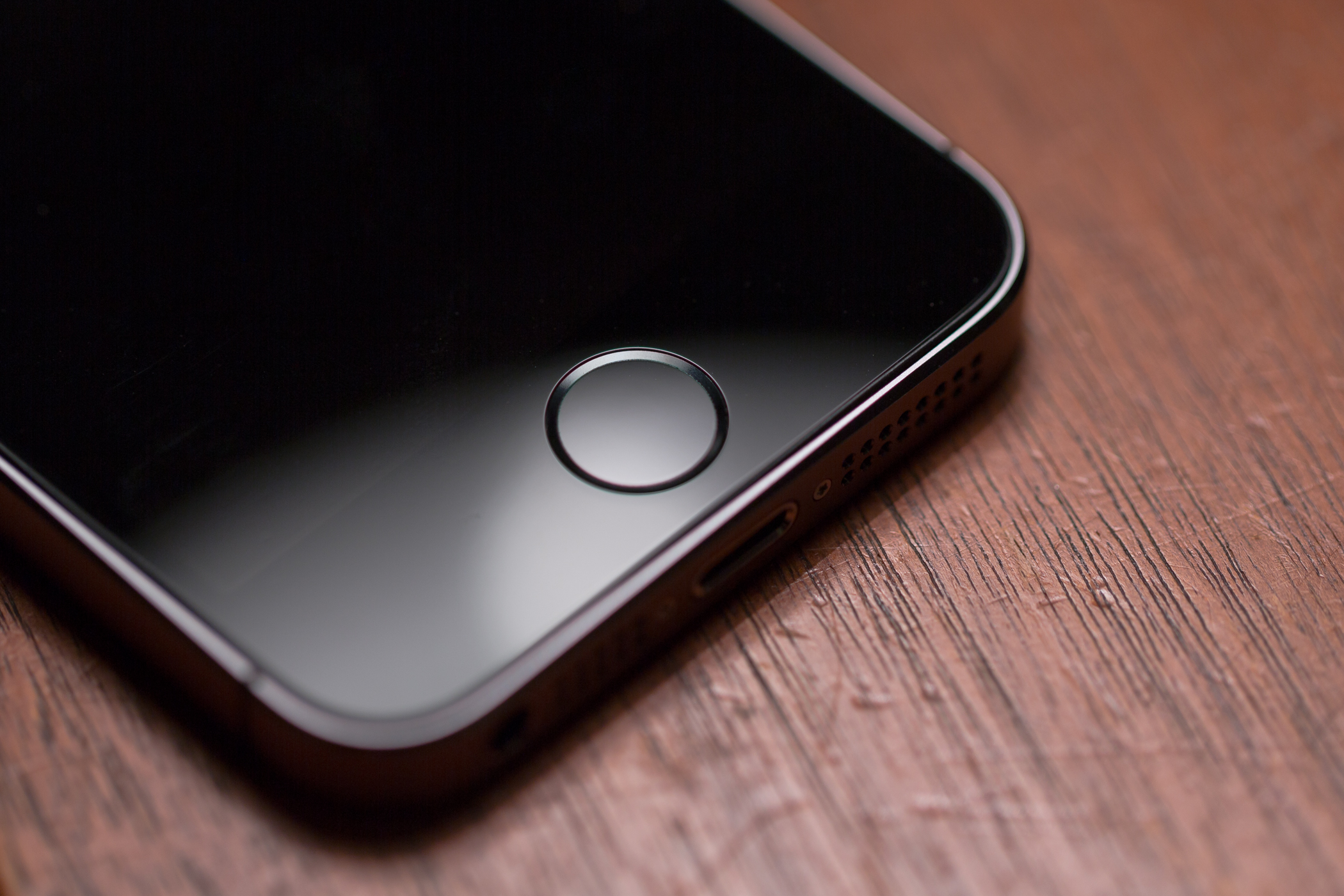 An image of the home button on the iPhone 5S.